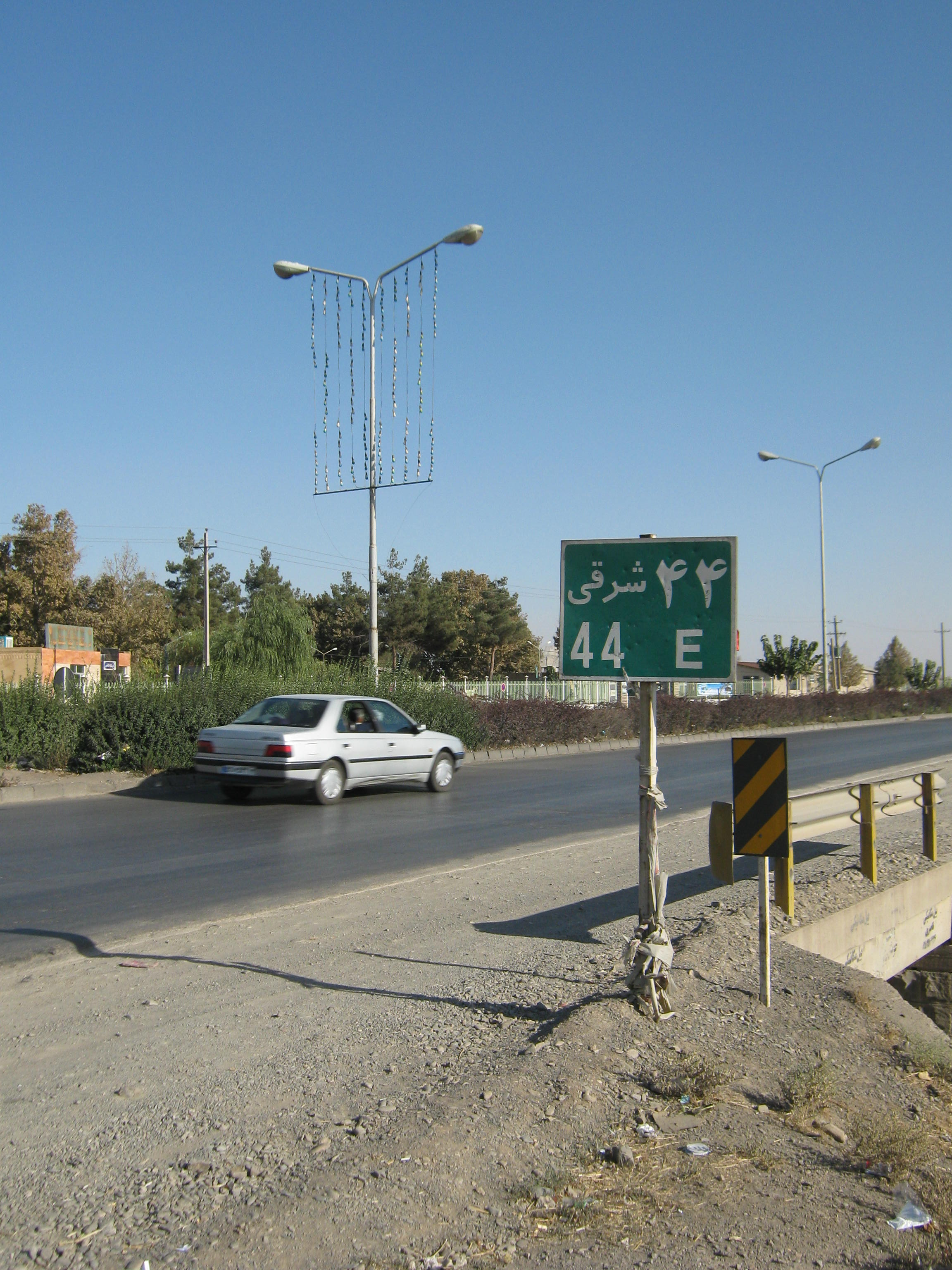 Road 44 East of Iran - Nishapur